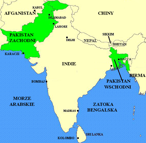 Pakistan before the Bangladesh War in 1971. Then East Pakistan became what is now known as Bangladesh and West Pakistan became Pakistan.